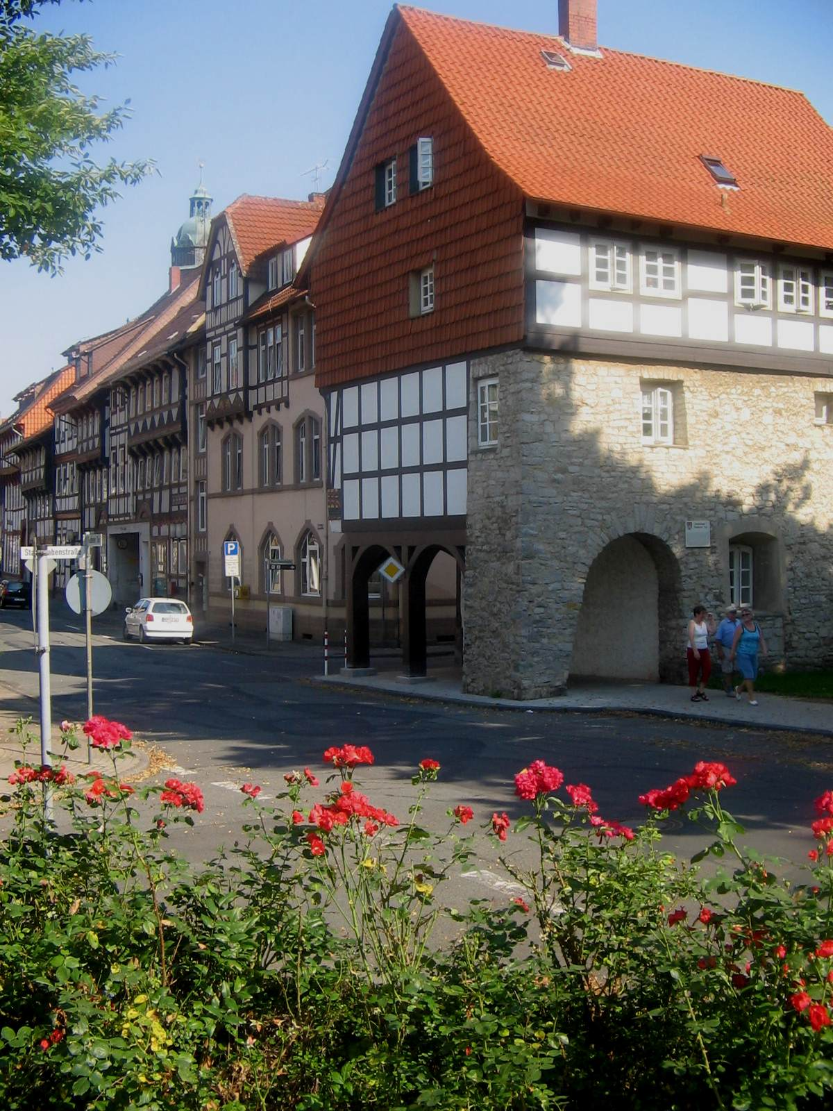 The town gate was first mentioned in 1322, named after the small village Tiedexen that was situated in front of the gate and was abandoned in the 14th century. The gate was pulled down in 1813, the passage for pedestrians was built in 1964.